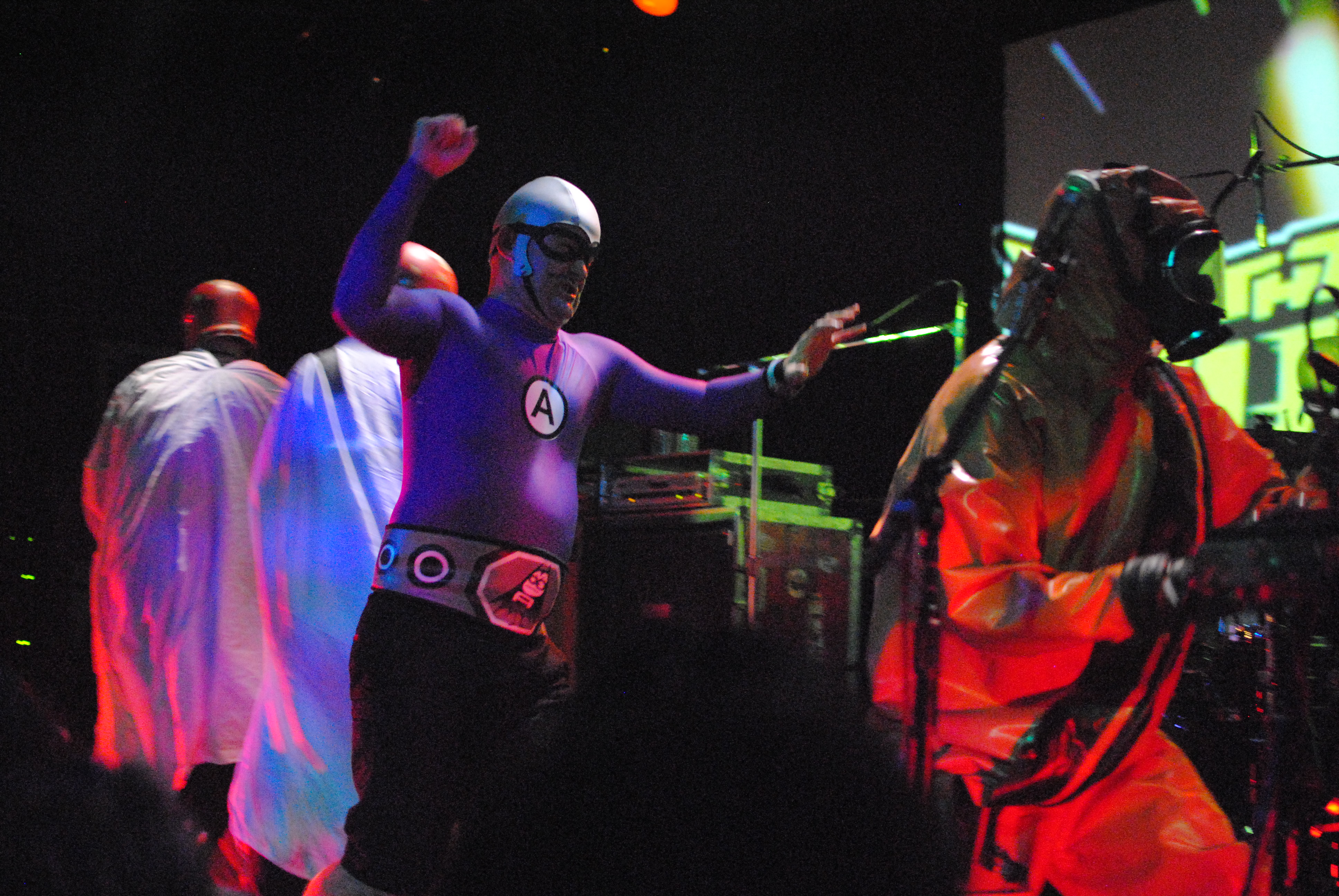 Photograph of a concert by American band The Aquabats, depicting the band engaging in mock battle with costumed villains, a staple of their live performances.